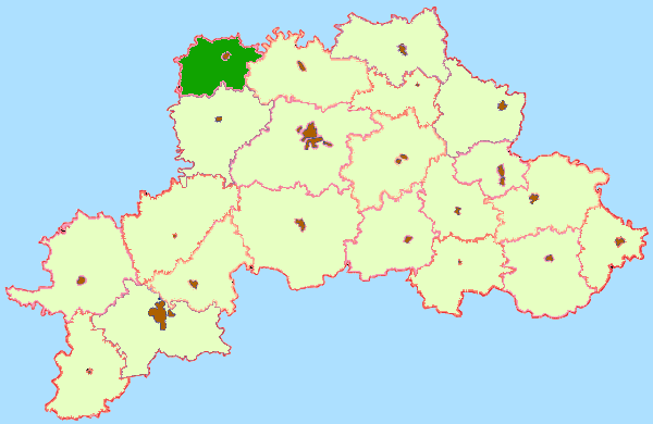 Mogilev Region map by Al Silonov